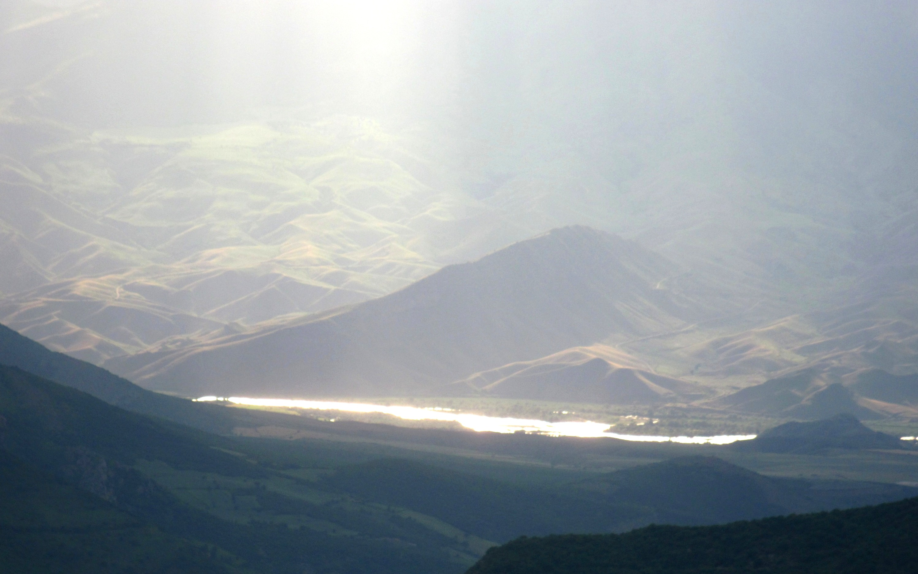 For Arasbaran Wiki page